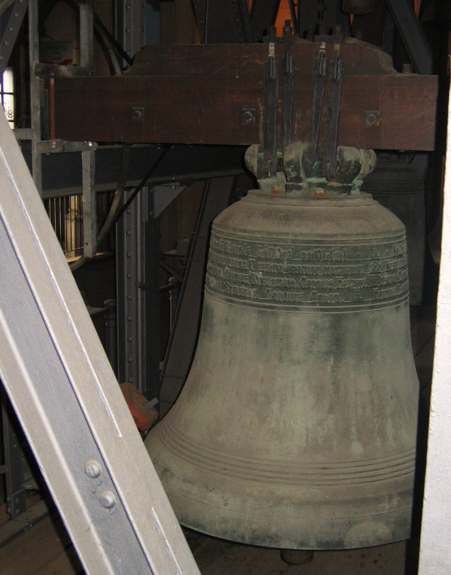 Cologne Cathedral, Kapitelglocke